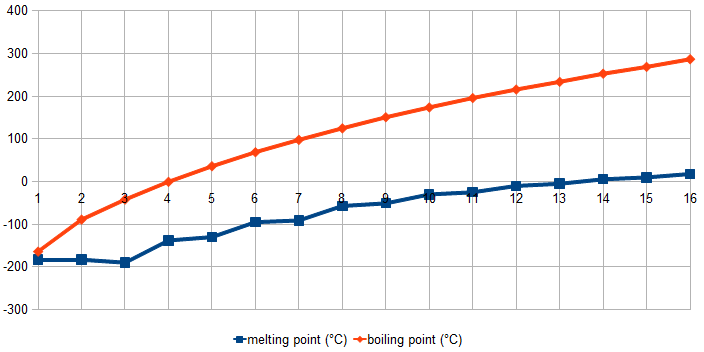 Melting points (in blue) and boiling points (in red) of the first sixteen alkanes (temperatures in °C, number of carbon atoms along the horizontal axis)